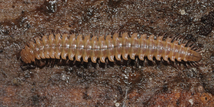 Atractosoma meridionale (Chordeumatida, Craspedosomatidae), a millipede from southern Germany. Source: Spelda, J., H.S. Reip, U. Oliveira–Biener, R.R. Melzer. Barcoding Fauna Bavarica: Myriapoda – a contribution to DNA sequence-based identifications of centipedes and millipedes (Chilopoda, Diplopoda) 2011 ZooKeys 156: 123–139